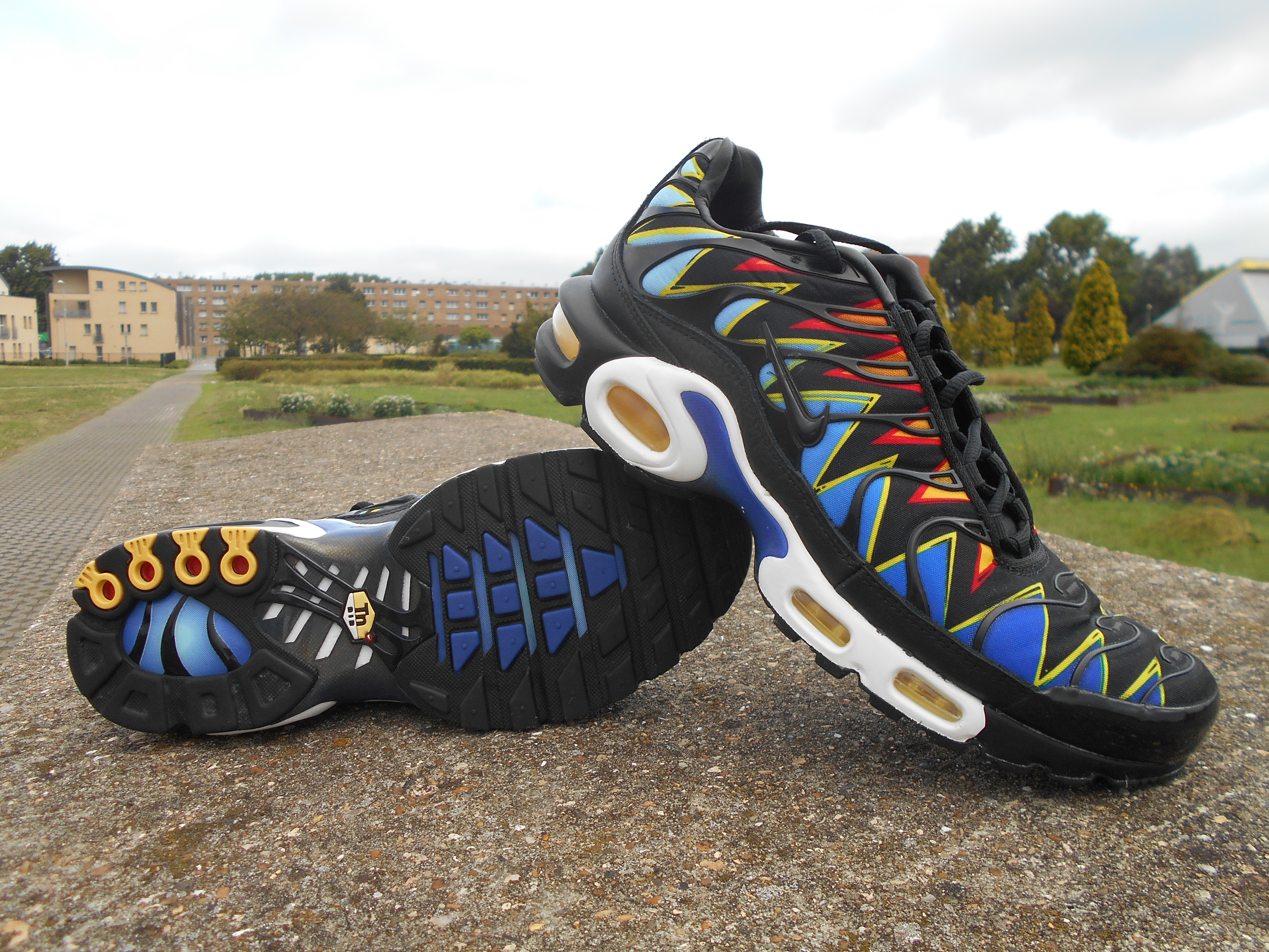 Nike Air Max Plus Tuned (2018)